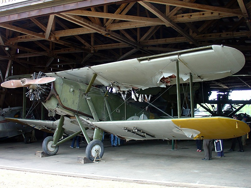 The only preserved example of Blackburn Ripon